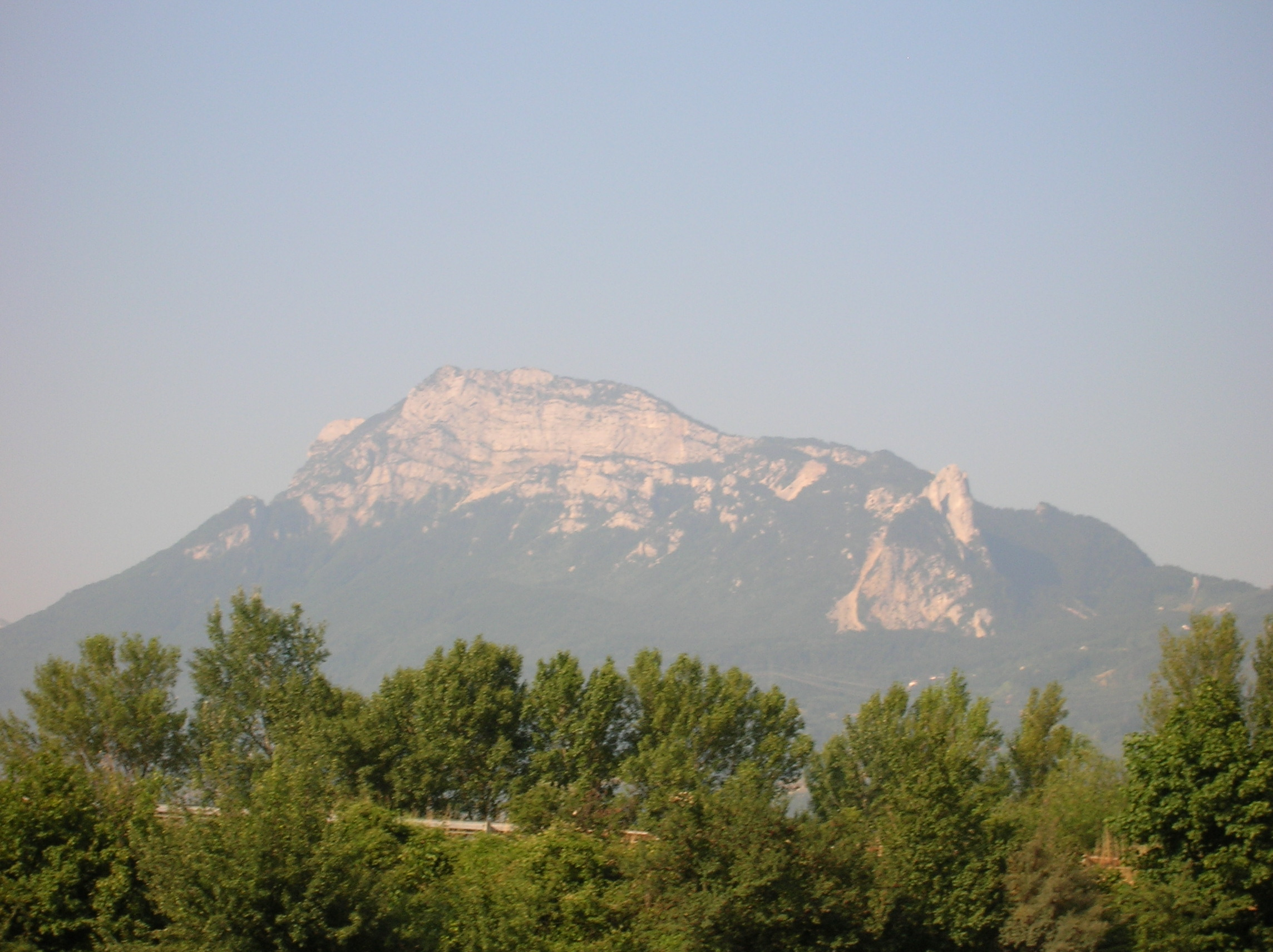 my own photograph